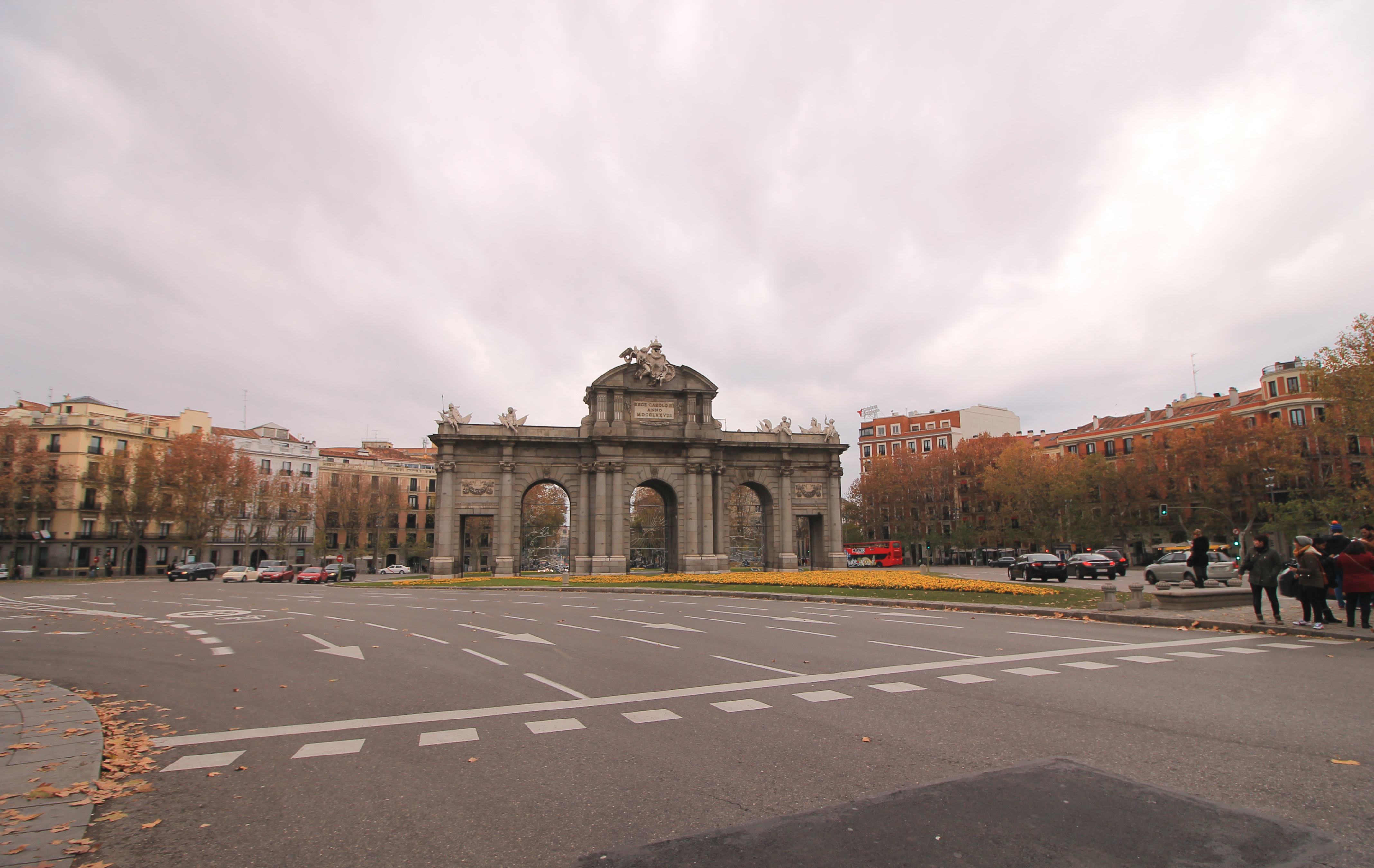 View from Plaza de la Independencia (square) in Madrid (Spain).